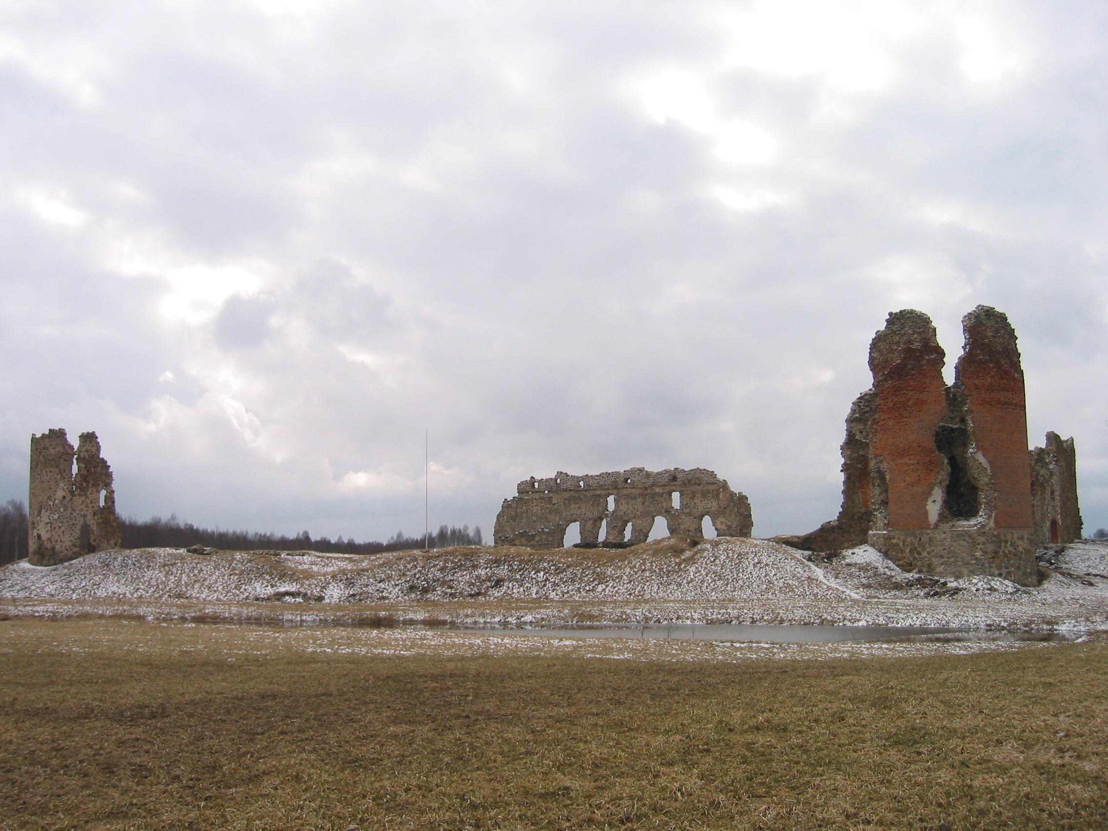 Ruins of Laiuse castle in Estonia.